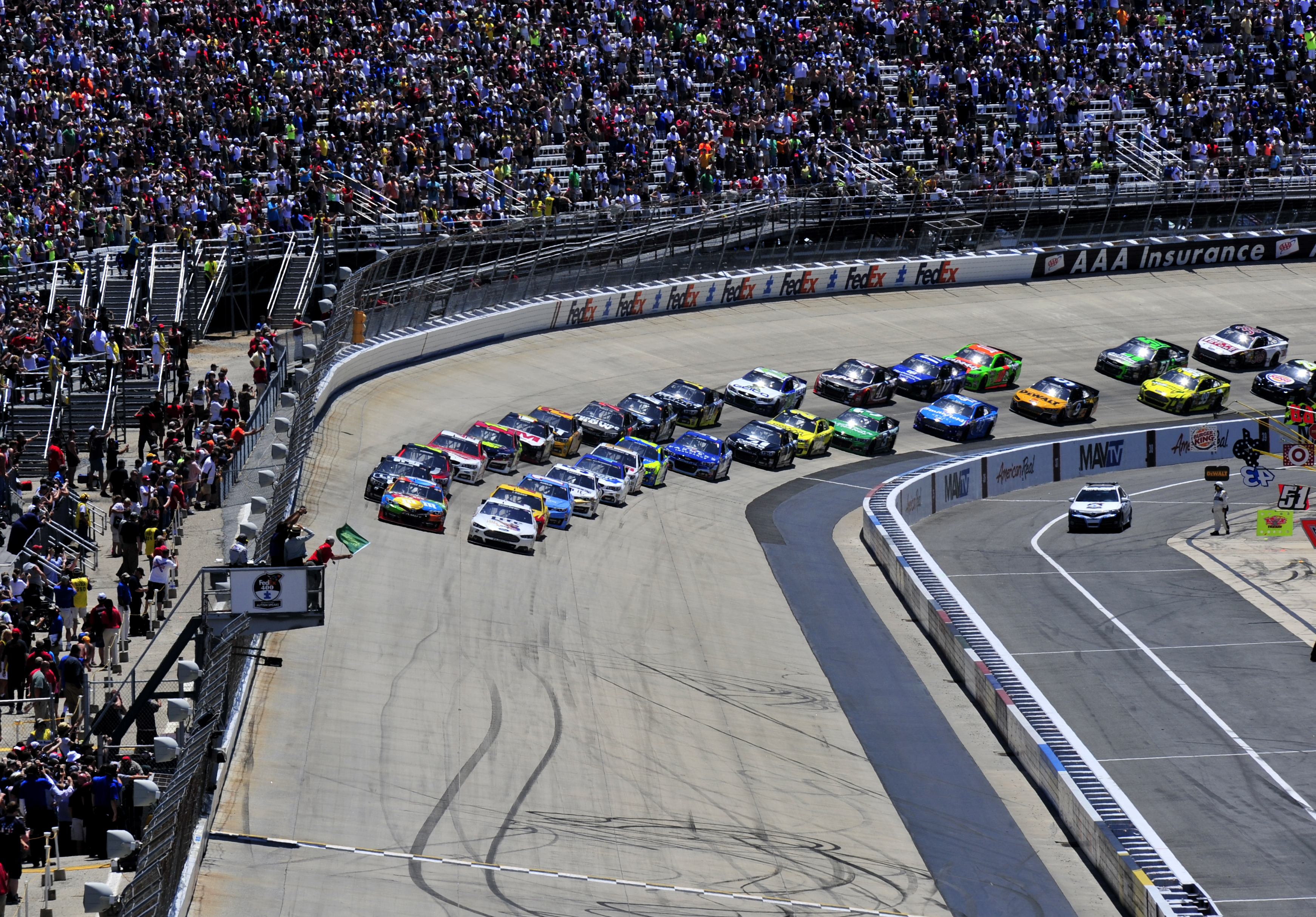 The NASCAR Sprint Series Race takes place at the Dover International Speedway June 1, 2014 in Dover, Del. (U.S. Air Force photo/Staff Sgt. Elizabeth Morris)